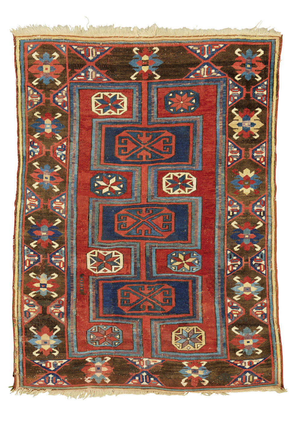 Lot 85, Karapinar rug, estimated at £2,800-4,000, sold at £31,250 ($41,090) Other Turkish village rugs from Alexander’s collection bought by the NY collector included: lot 85, a small Karapinar with three Turkic göls in rectangular compartments, estimated at £2,800-4,000, which fetched £31,250 ($41,090).